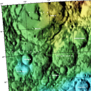 Bergstrand crater on the Color-coded LAC 104 from USGS Digital Atlas.